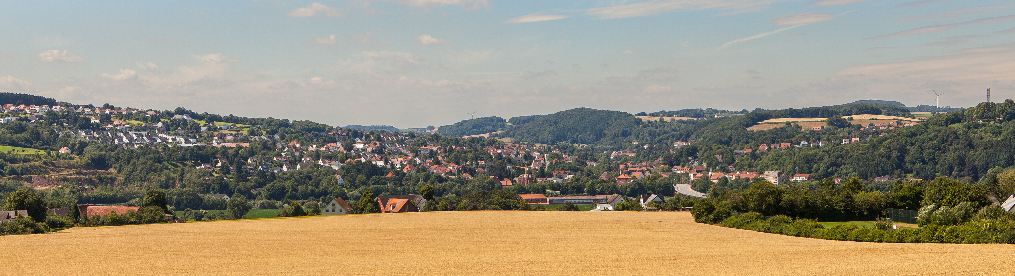 Town of Vlotho, District of Herford, North Rhine-Westphalia, Germany.